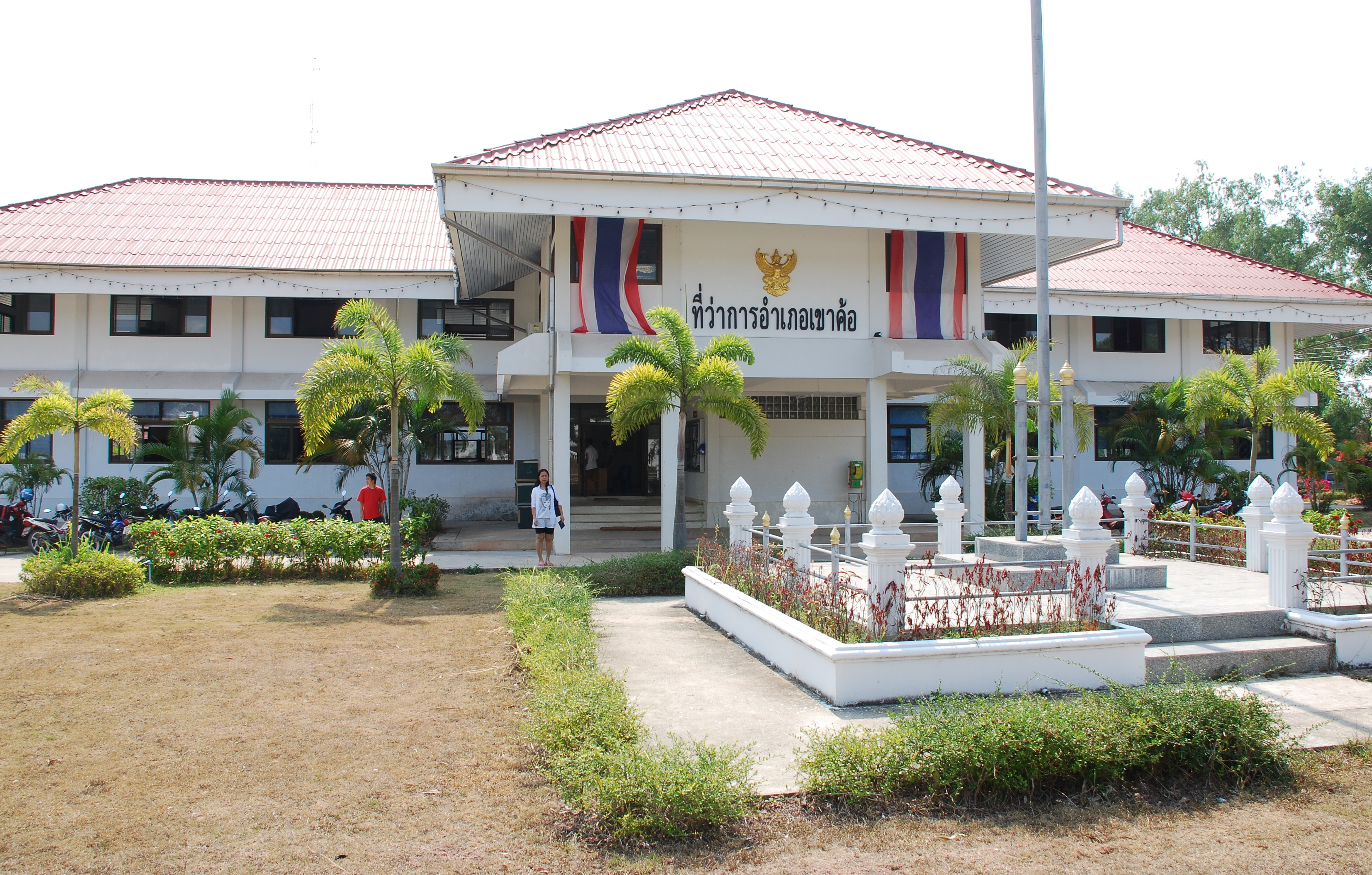 "Town Hall" Khao Kho